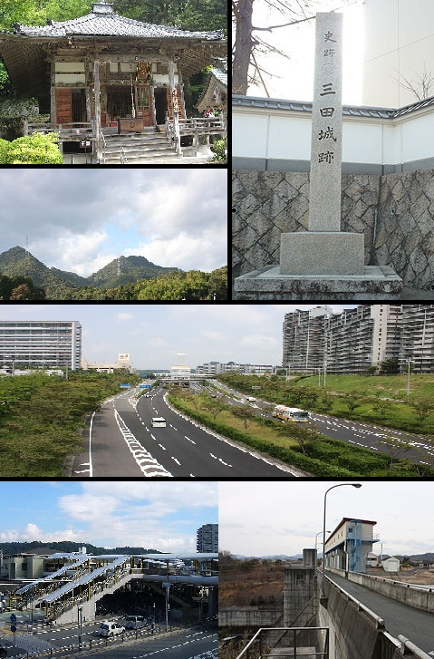 Sanda montage